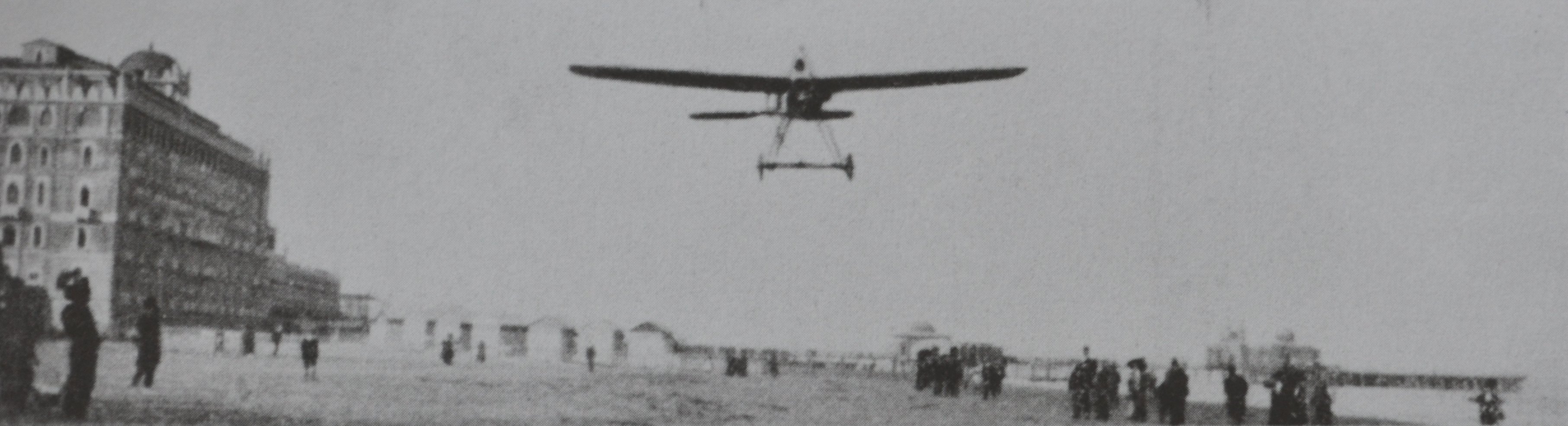 An Italian pioneer monoplane Caproni Ca.12 performs a demonstration flight over the beach of Venice (Lido di Venezia) in April 1912.